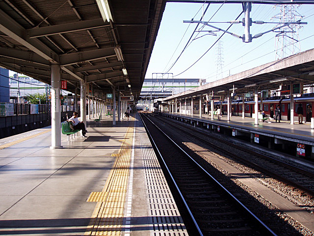 Kyoto Municipal Transportation Bureau Karasuma Line & Kinki Nippon Railway Takeda Station Platform